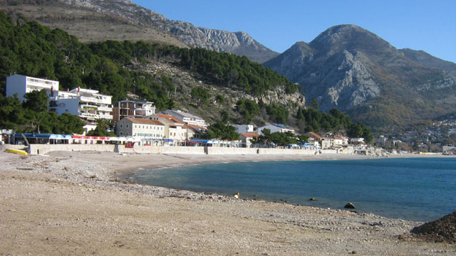 Sutomore city beach, Spič bay